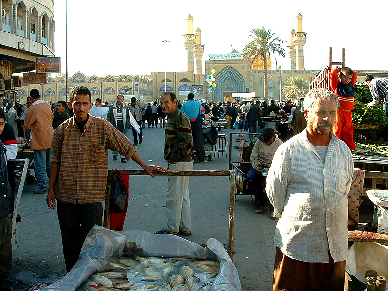 Kadhimiya market with shrine in the background Kadhimiya, Baghdad, Iraq. Taken by Devin Murphy, December 2003.